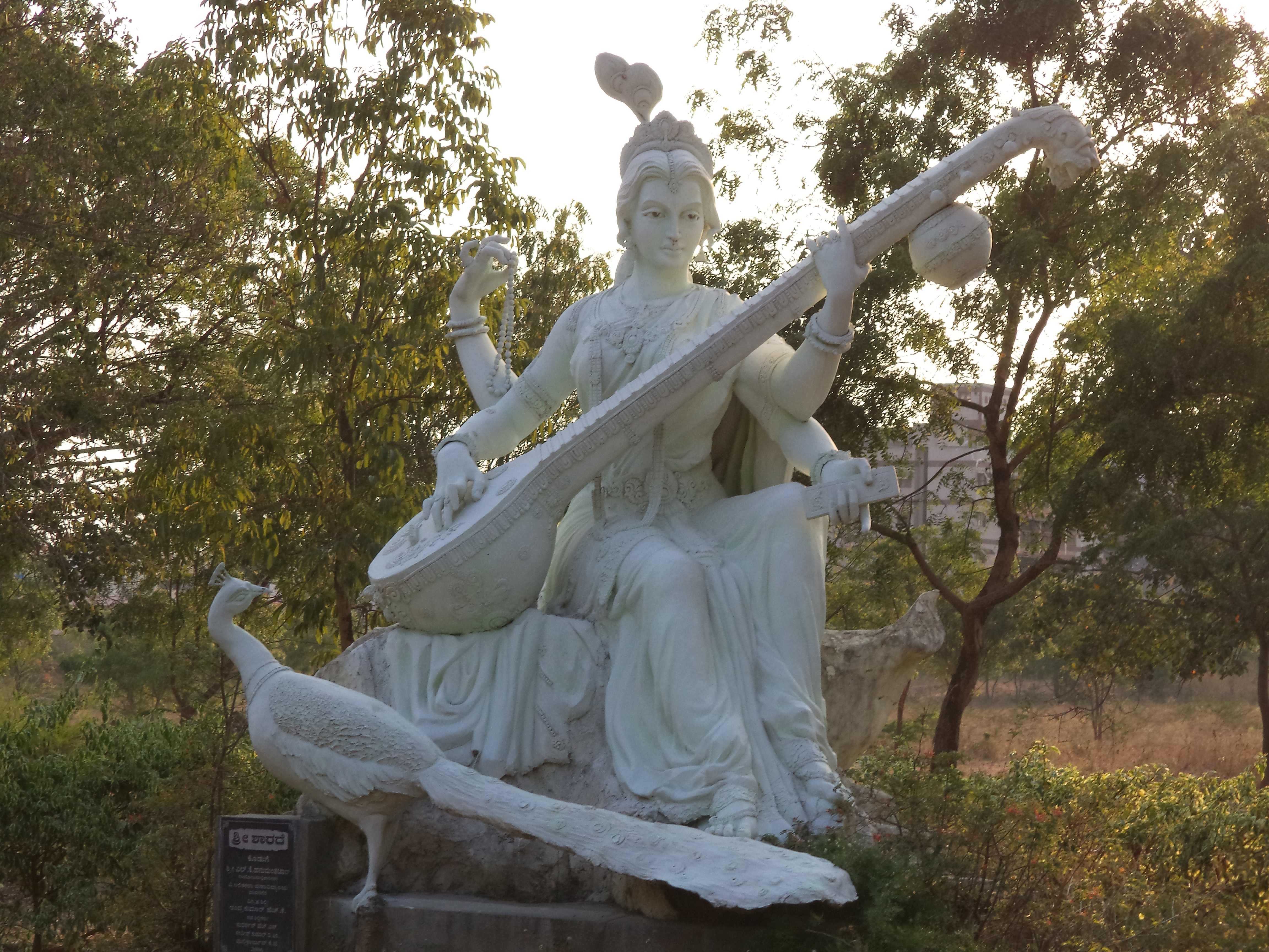 Statue of Goddess Saraswathi at Fine Arts college, Davanagere.